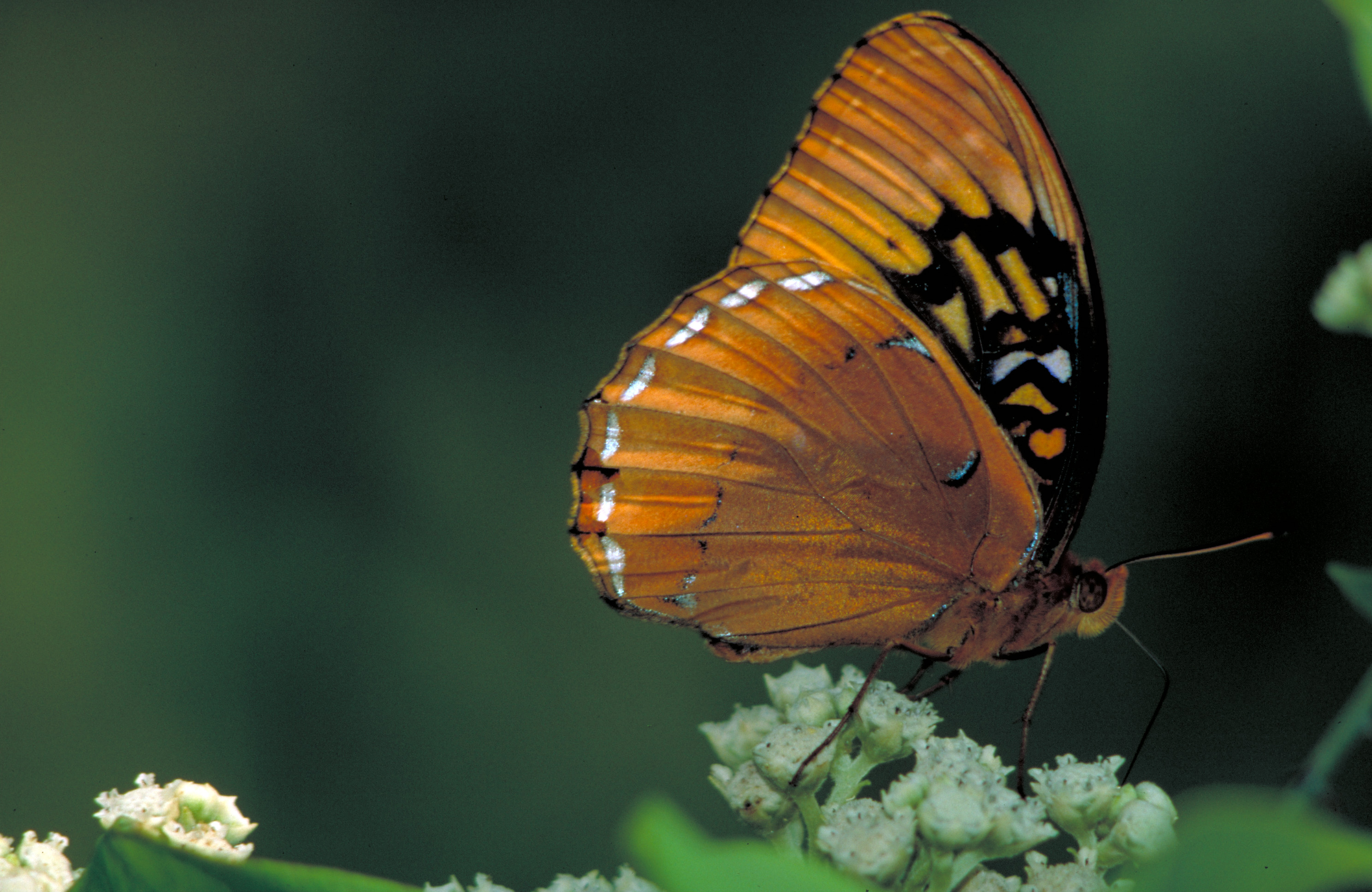 Diana fritillary (Speyeria diana) on Wild quinine - Male orange butterfly on white blossom, viewed from the side with wings up.